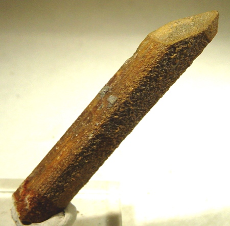 Stibiconite Locality: Catorce (Real de Catorce), Municipio de Catorce, San Luis Potosí, Mexico (Locality at ) A sharp stibnite crystal that has been replaced by the mineral stibiconite, retaining the original form perfectly. These are not the most beautiful of mineral specimens, but they deserve respect as a classic from San Luis Potosi. 7 x 1 x 0.8 cm